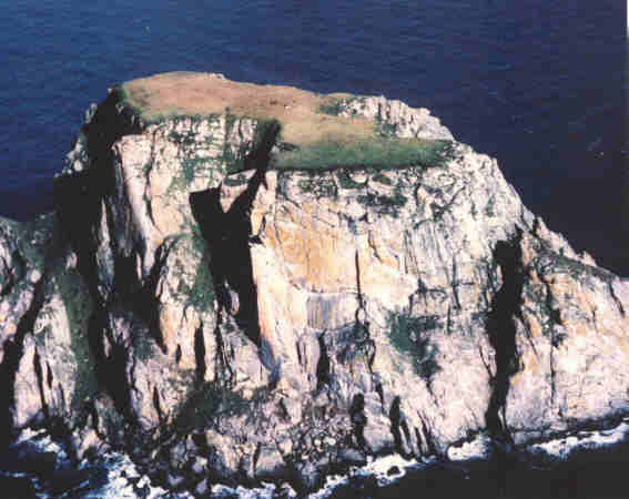 Fairway Rock (RTGs) Bering Strait (Summer 1986); original picture from the U.S. Navy's Arctic Submarine Laboratory